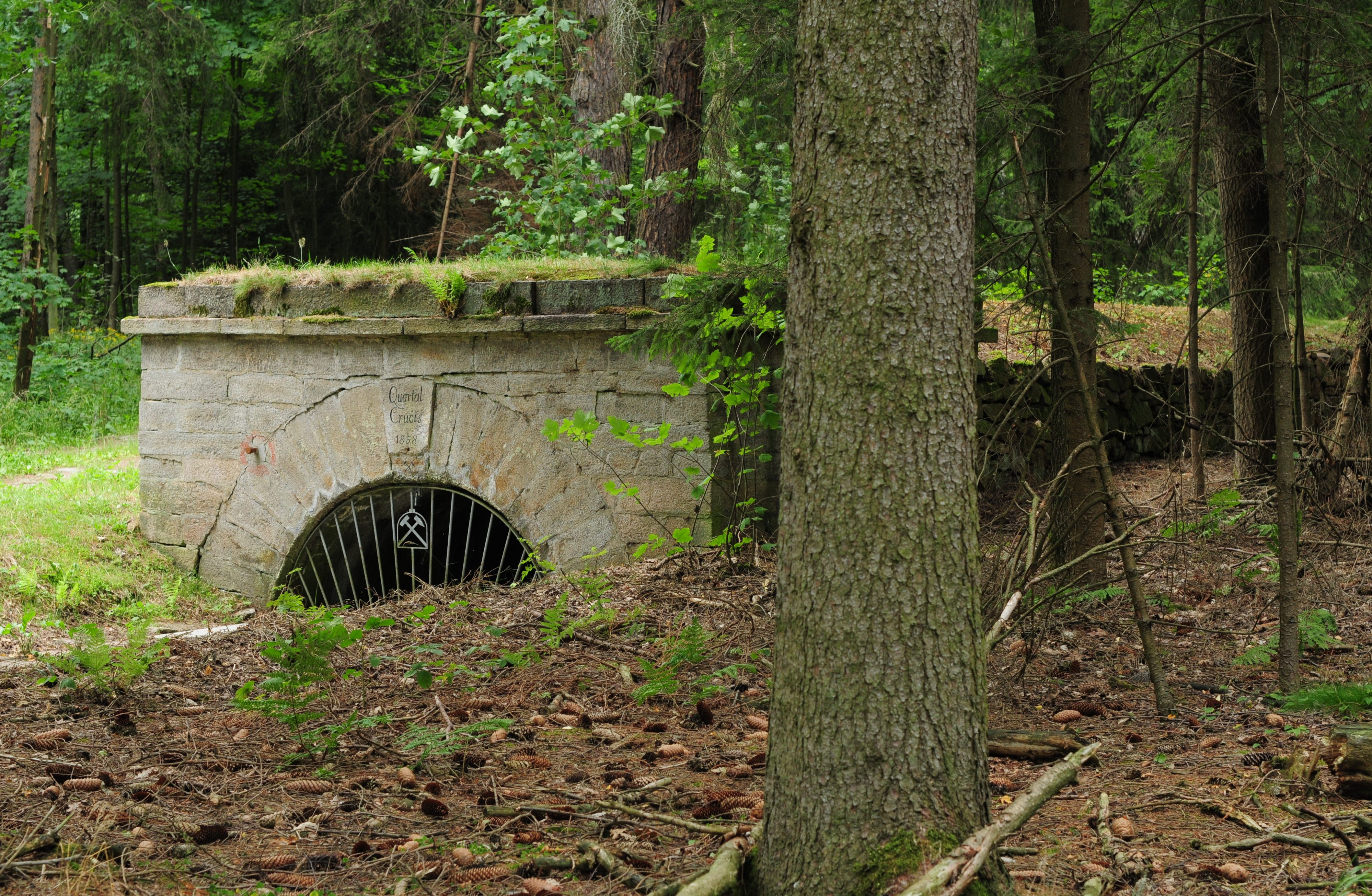 Revierwasserlaufanstalt Freiberg (“Freiberg Mines Water Management System”): Dörnthal leat, Haselbacher Rösche (mining gullet), upper opening hole (district Erzgebirgskreis, Free State of Saxony, Germany)